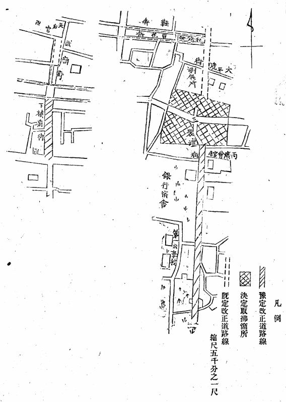 Road widen plan in Tainan, Taiwan, Japan 1906